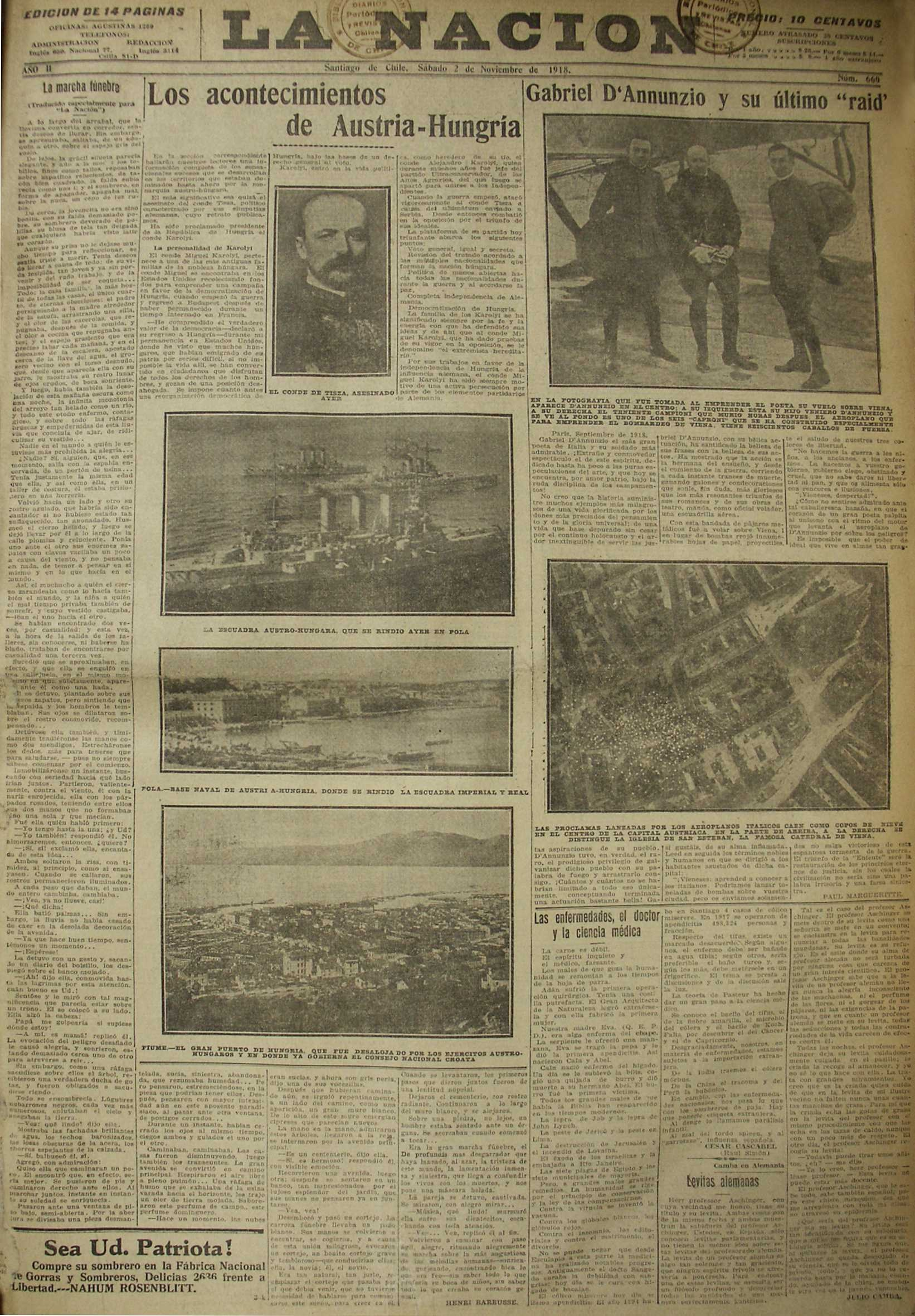 Front page of the extinct Chilean newspaper La Nación's 2 November 1918 edition.